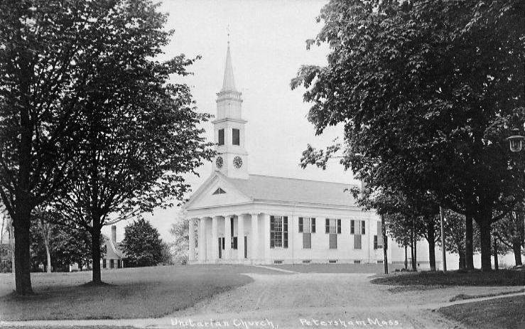 First Congregational Parish, Unitarian, Petersham, MA; from a 1911 postcard.